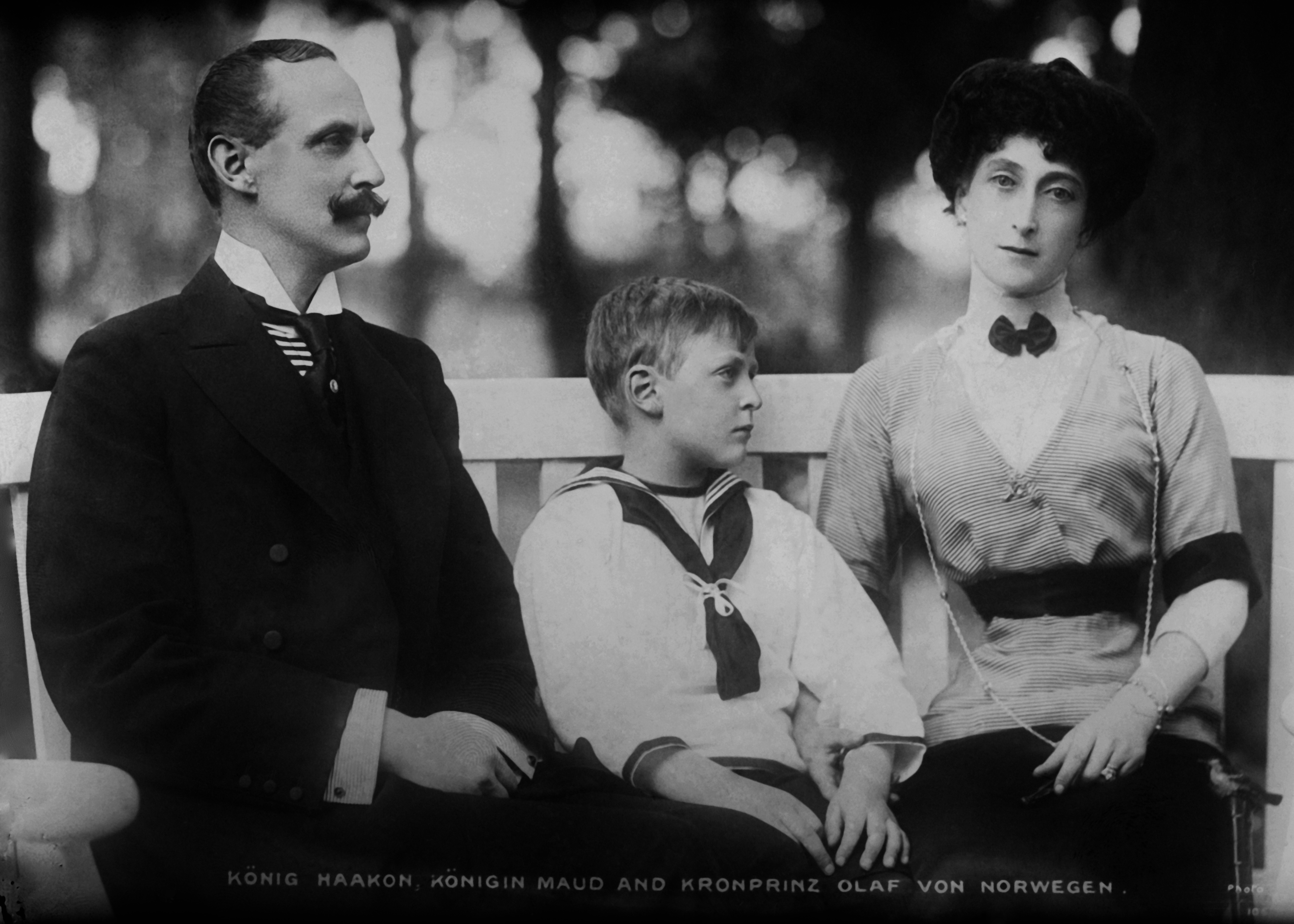 King Haakon, Queen Maud and Crown Prince Olaf from Norway.